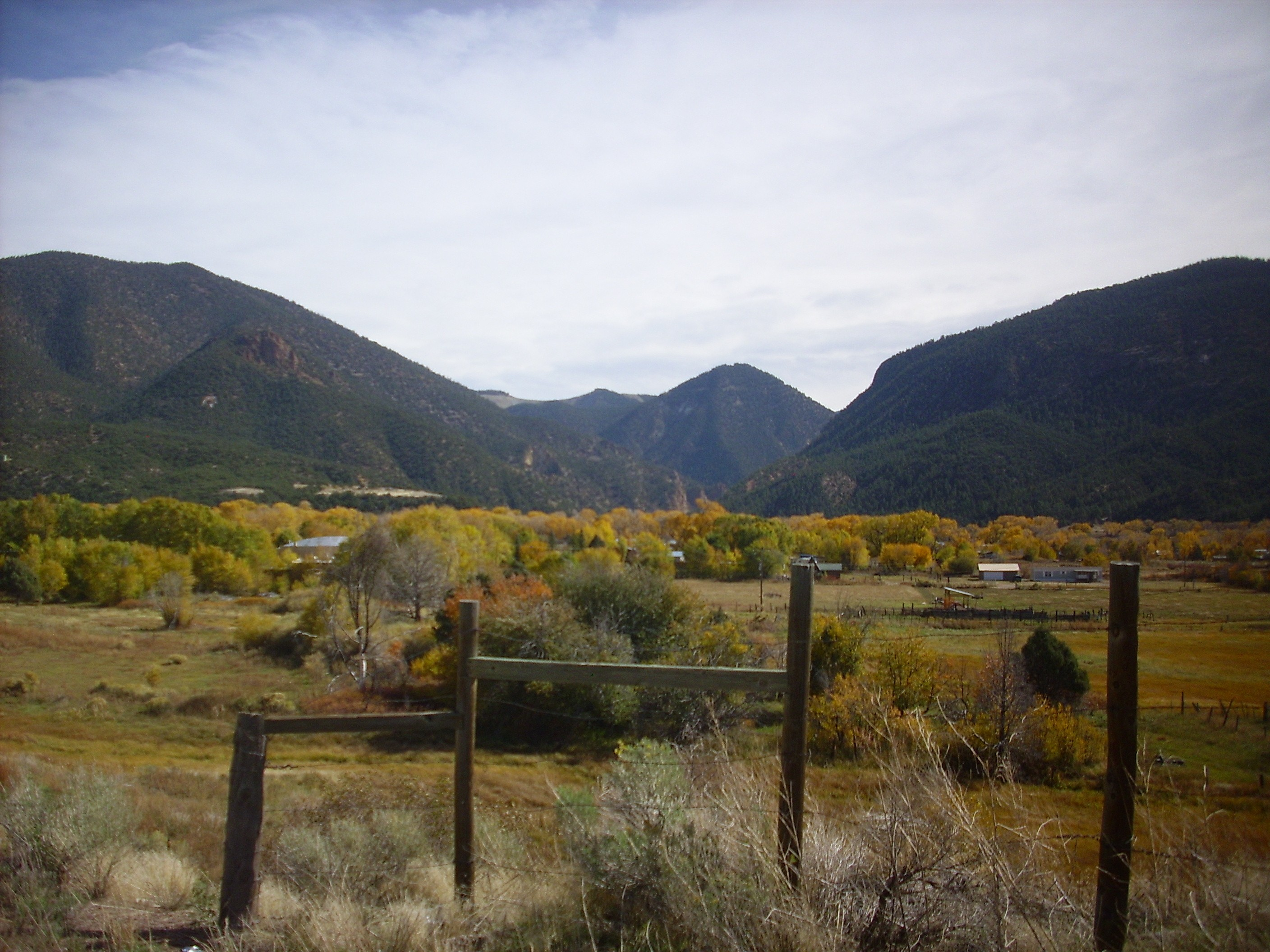 This image shows the mouth of Red River Canyon in the Sangre de Cristo Mountains of New Mexico, USA. Viewpoint is near Questa looking east. The knob at center is Goat Hill, beyond which is the Questa molybdenum mine.